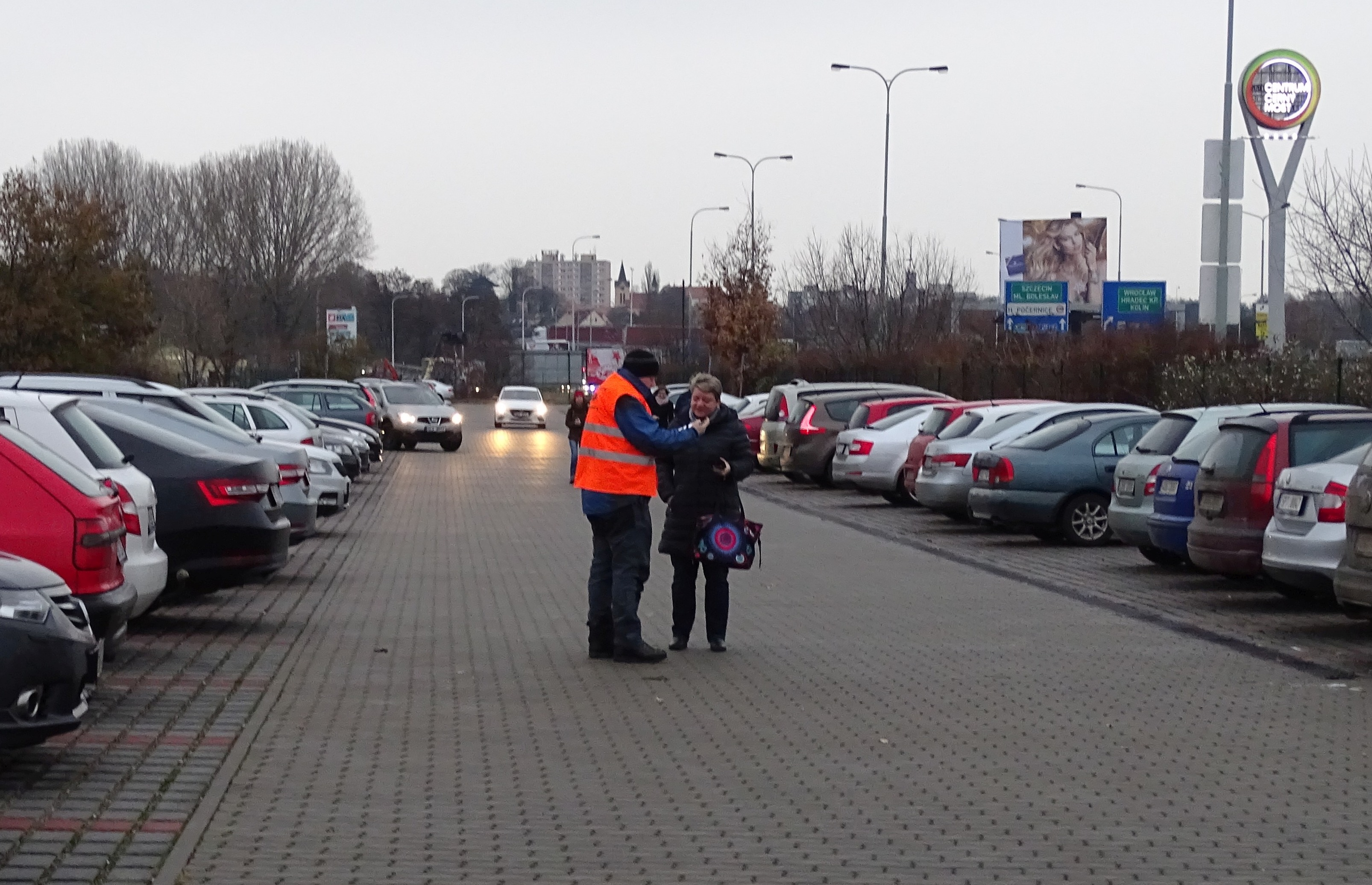 Prague-Horní Počernice, Czechia. Černý Most II P+R car park.